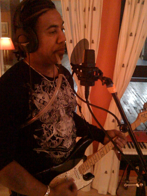 working on the new Maktub album ... finishing up final overdubs the next couple week. Thad doing his talkbox thing (he's a pro at it)